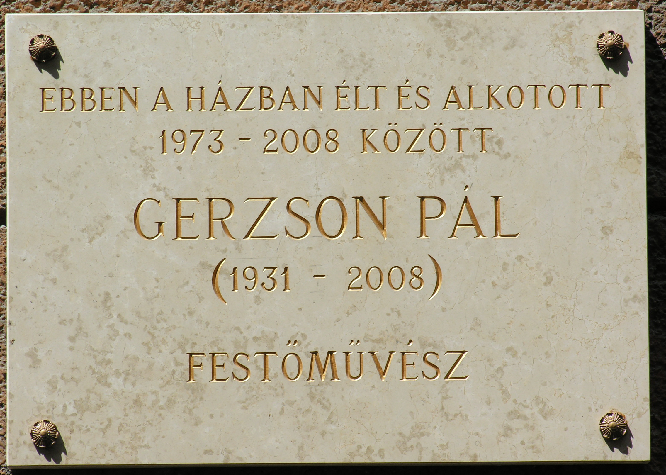 Commemorative plaque of Pál Gerzson in Budapest District VIII, Krúdy Gyula Street No 12